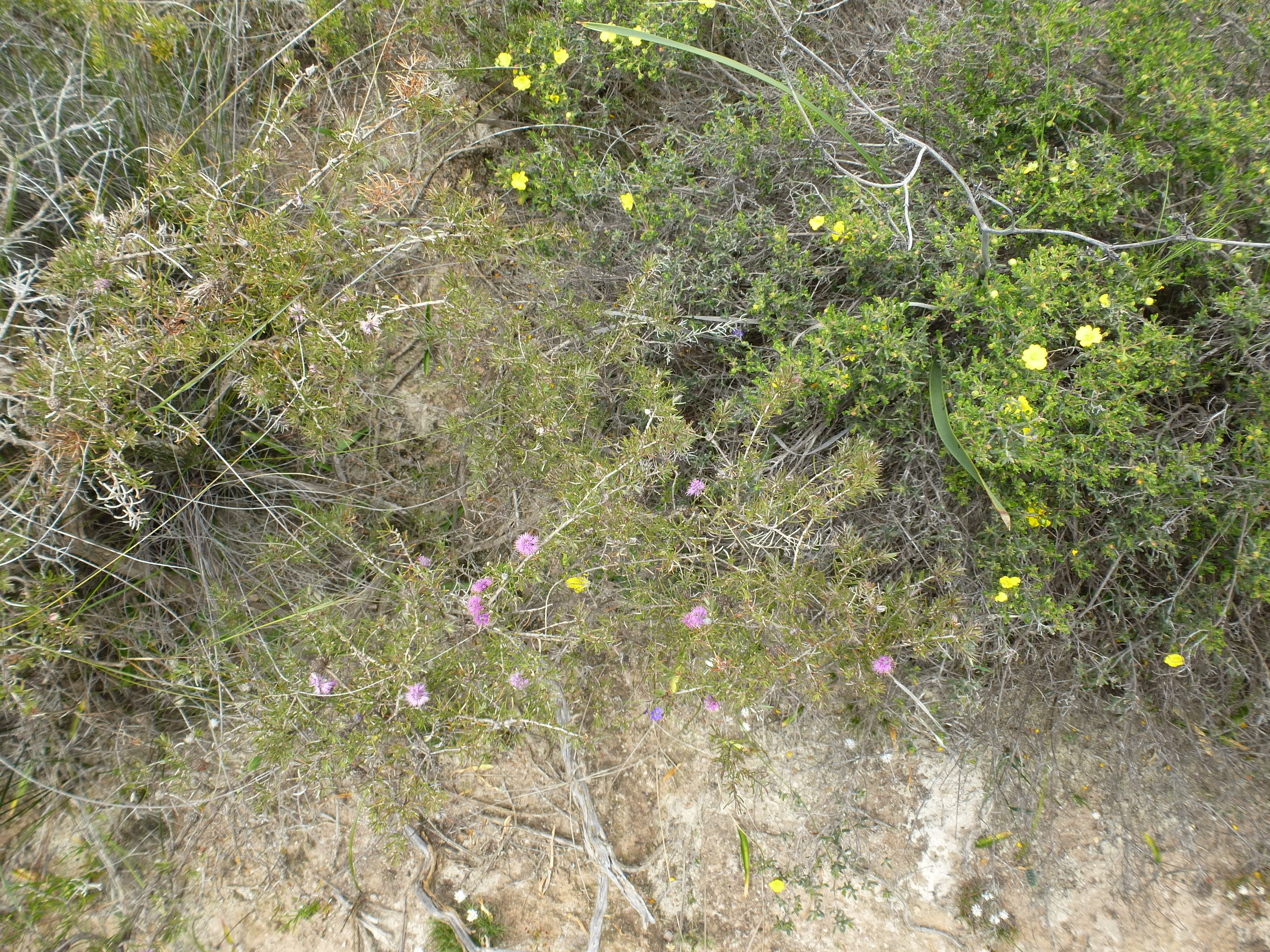 Melaleuca tinkeri growing on the corner of Tabletop Road and Mount Horner West Road near Dongara